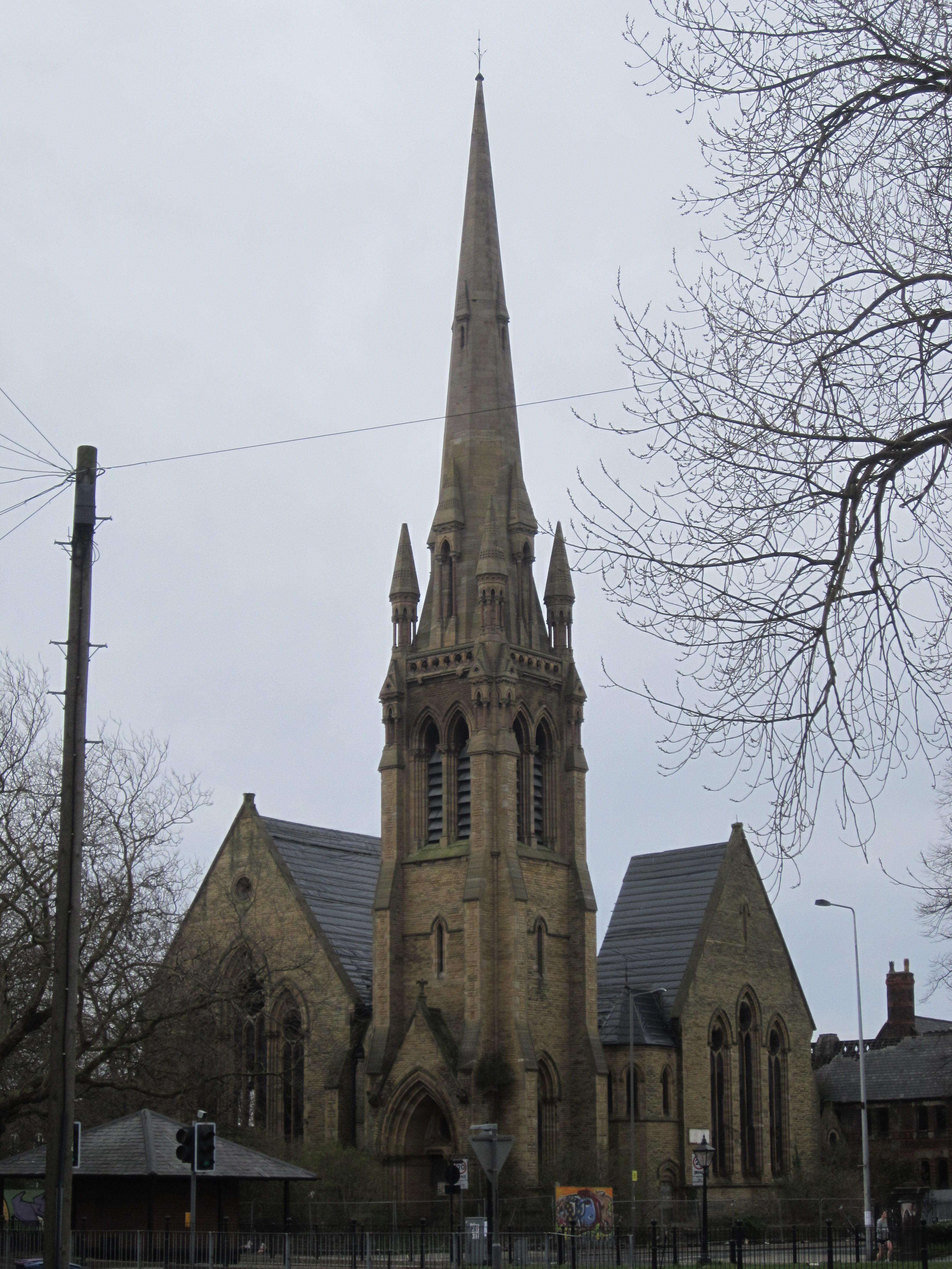 Welsh Presbyterian Church, Princes Road, Liverpool, England.